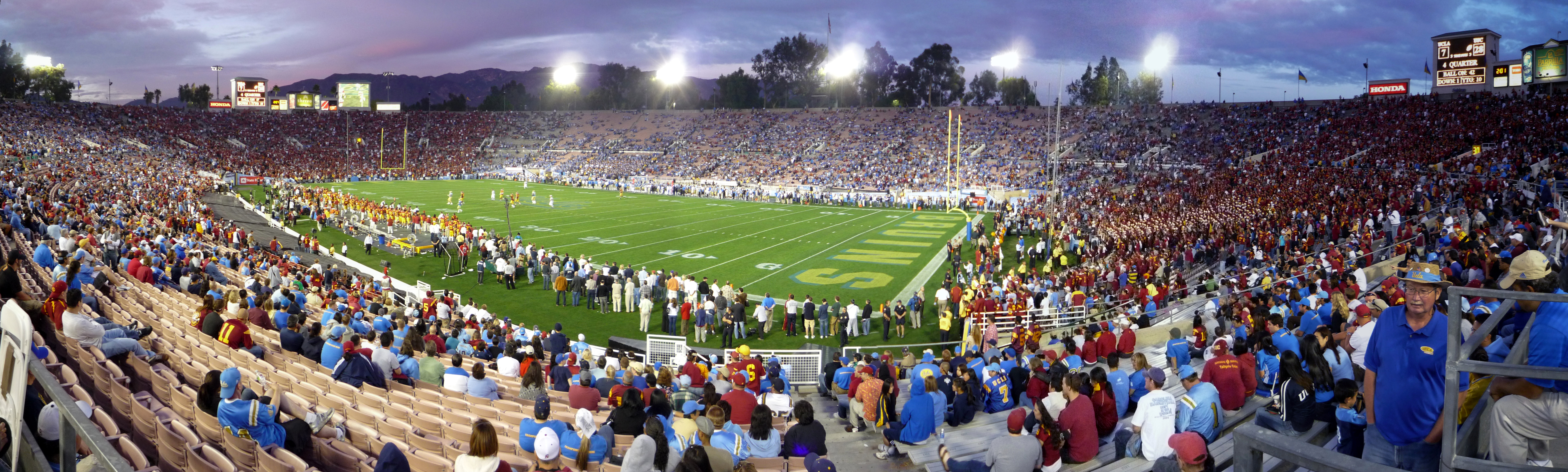 The Rose Bowl stadium during the 2008 UCLA-USC rivalry game; at the time the photo was taken it was the waning moments of the 4th quarter, in garbage time. With the game already well in hand, many blue-clad UCLA fans had left, leaving mostly red-clad USC fans in the stadium. USC would win by a final score of 28-7.